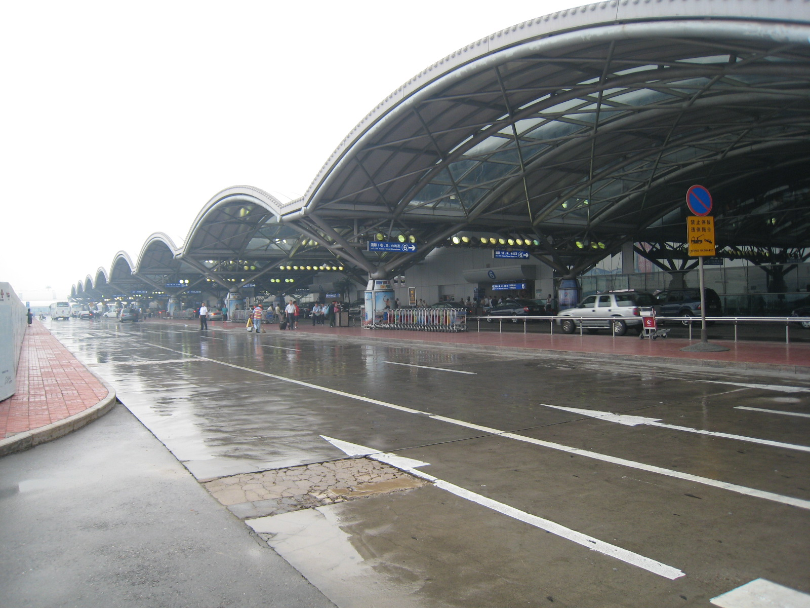 Entrance of Beijing Capital International Airport Terminal 2